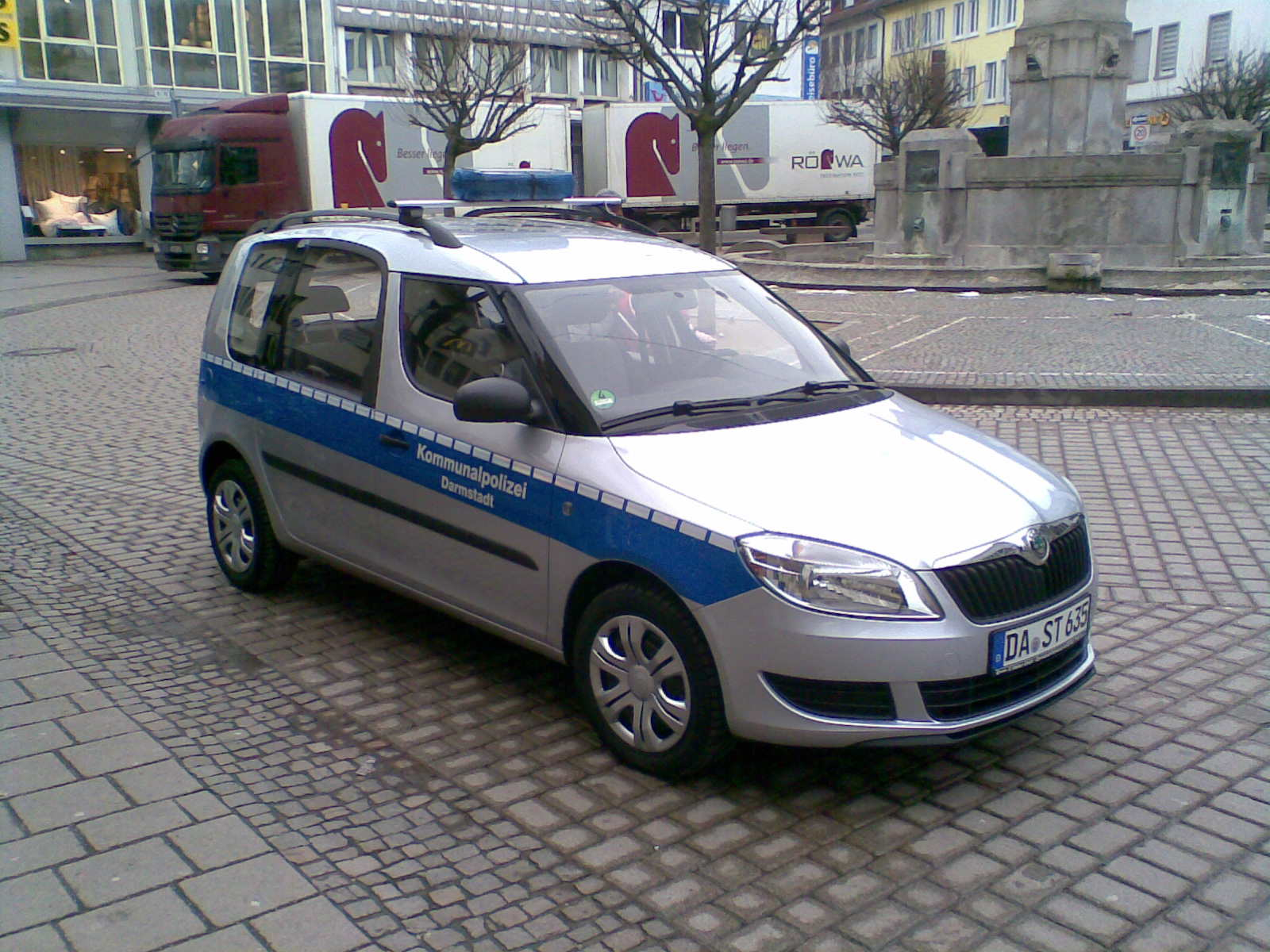 Official car of Darmstadt's municipal police, seen at Ludwigsplatz